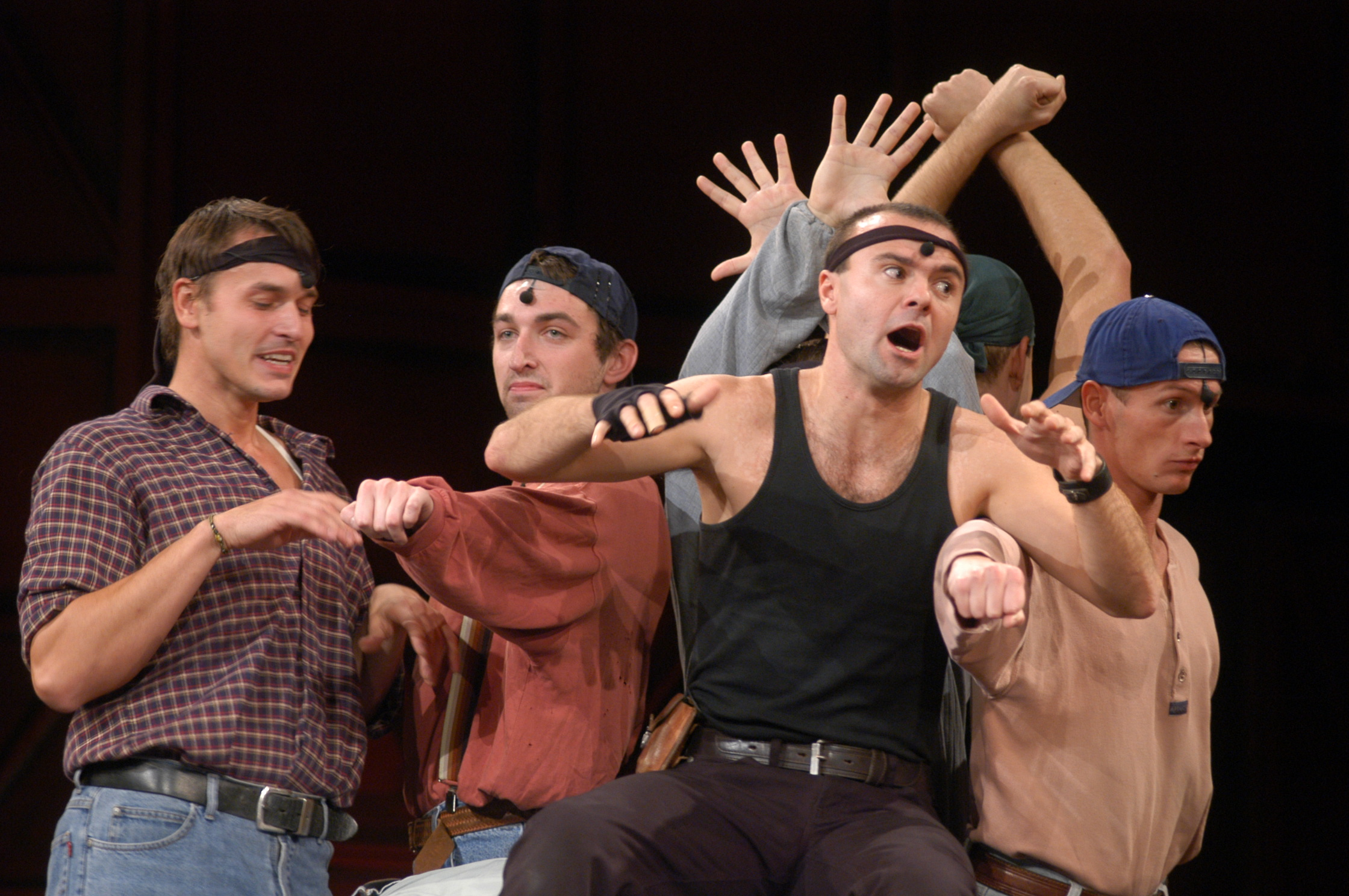 West Side Story by Městské divadlo Brno (Czech Republic) - from the left: Petr Štěpán, Denny Ratajský, Tomáš Sagher, Vladimír Strouhal